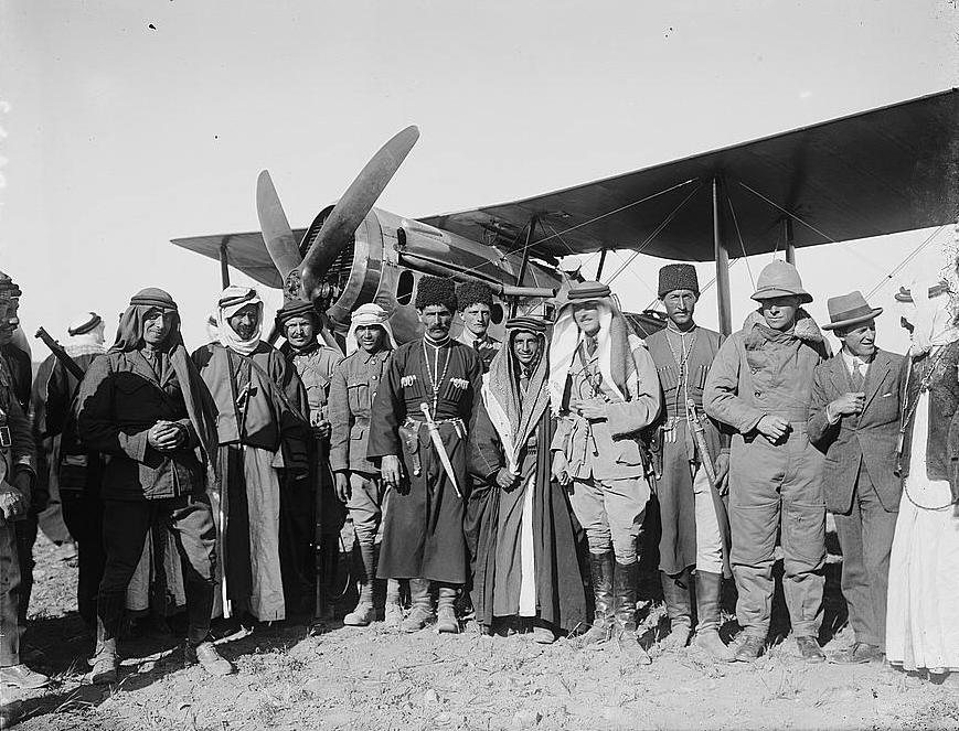 Bedouin and Circassian chiefs on the Aerodrome at Amman, 1921